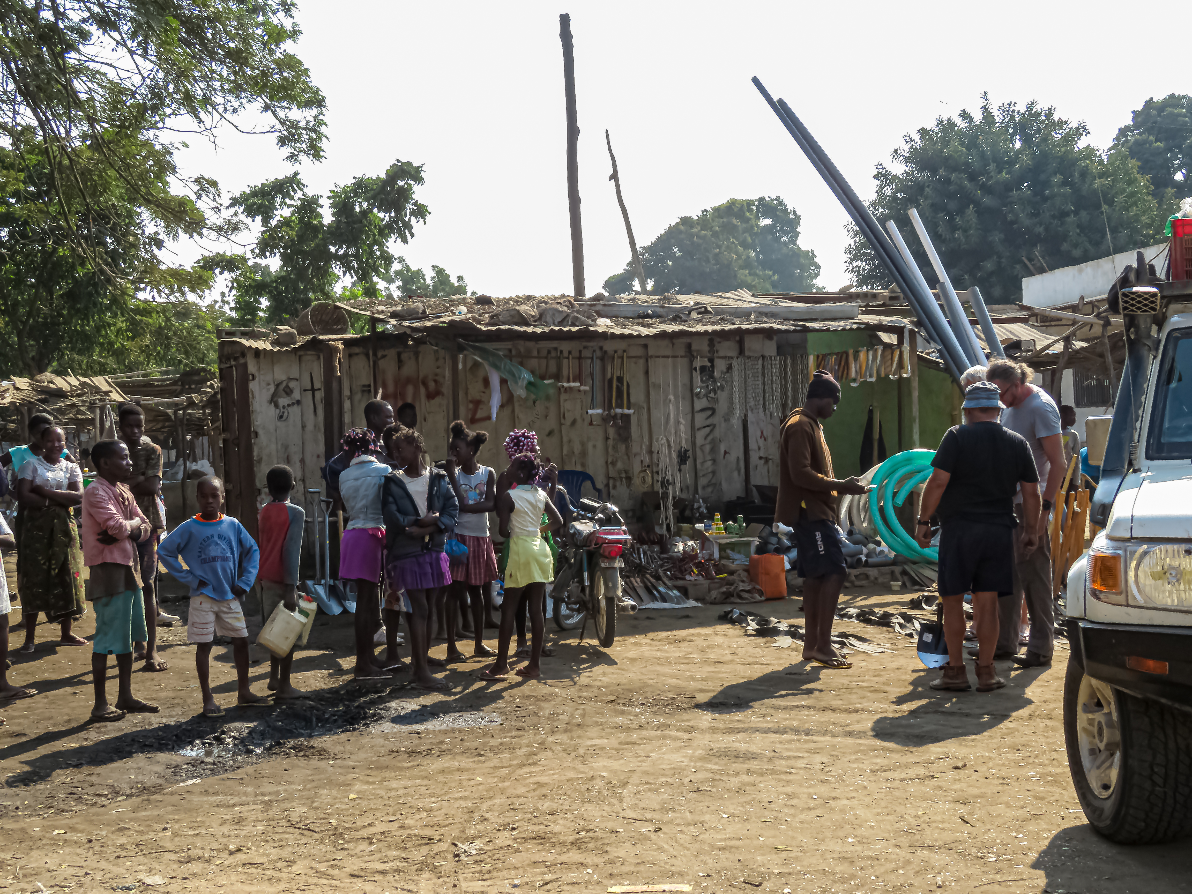 Squatters camp outside of Luanda Angola This is an image with the theme "Africa on the Move or Transport" from: Angola